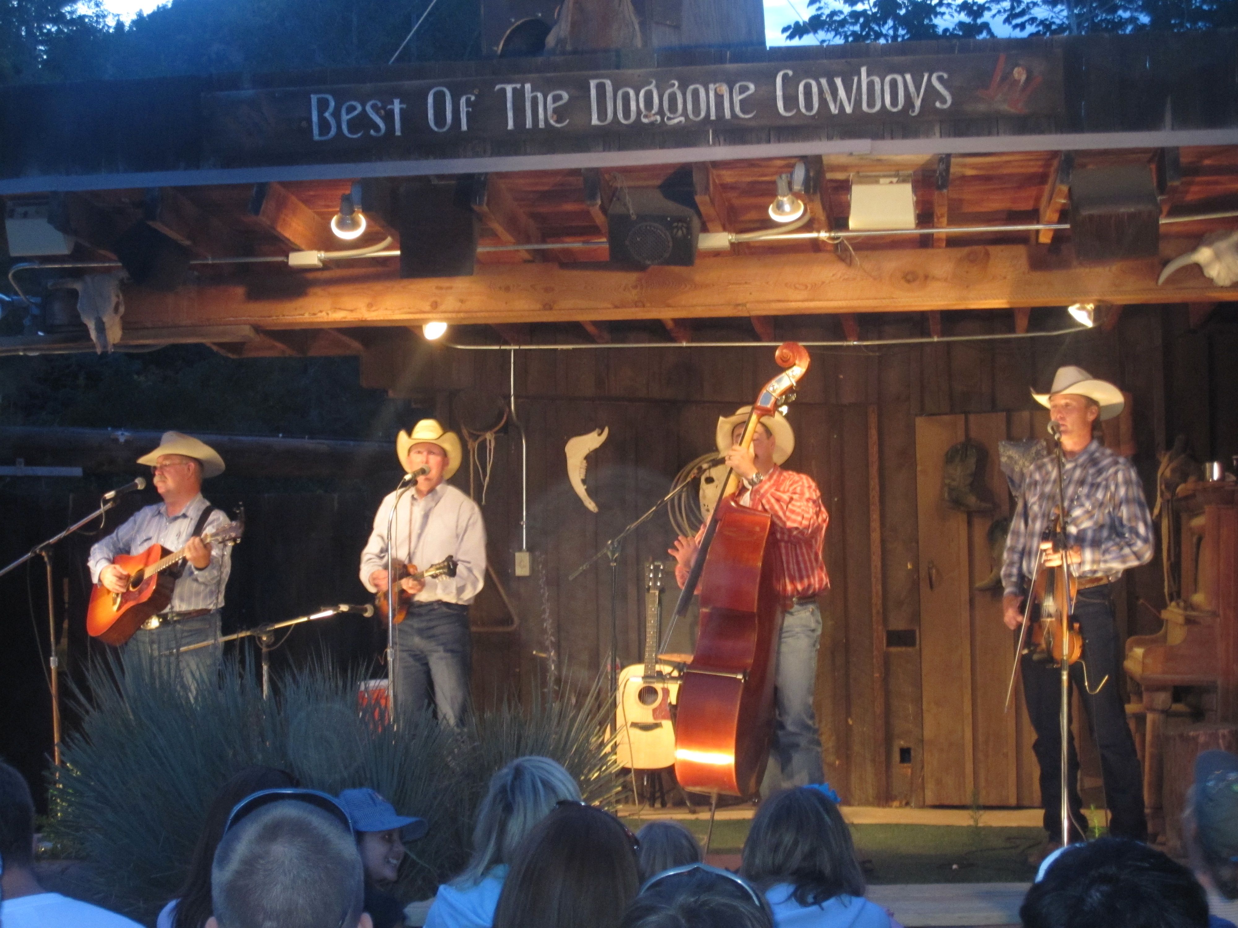 I took photo in Colorado Springs, CO, with Canon camera.